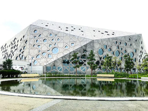 Sheikh Jaber Al Ahmad Cultural Centre (also known as, Kuwait Opera House)